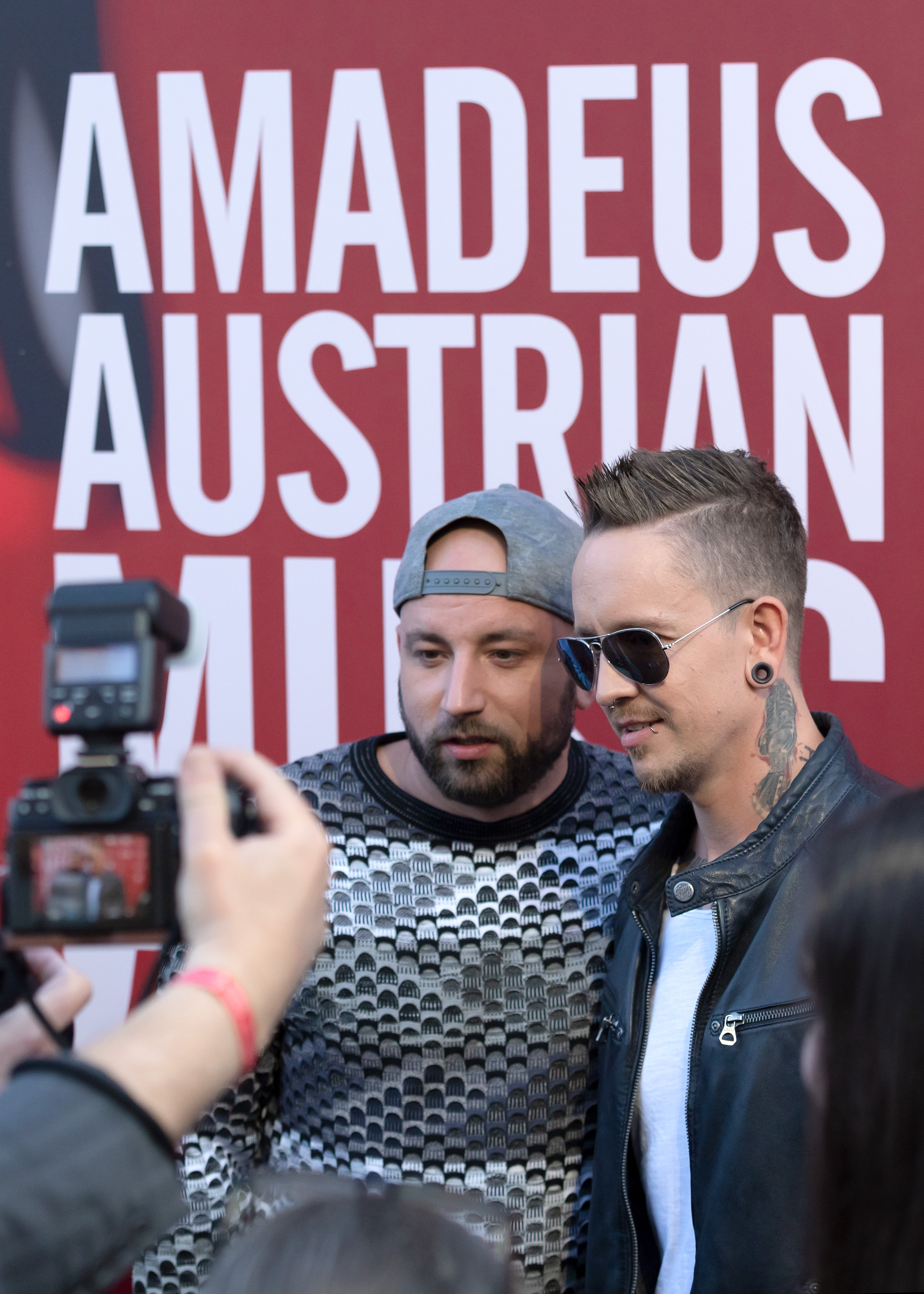 Seiler und Speer at the Amadeus Austrian Music Award 2019 at Volkstheater in Vienna.